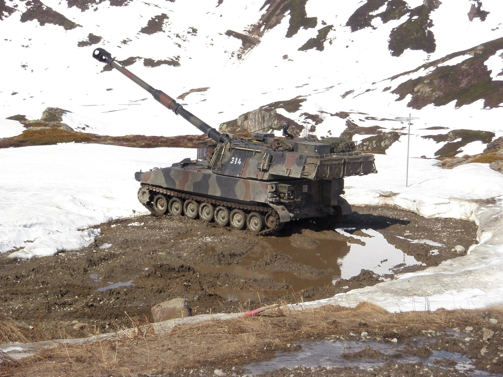 m109 Kawest at Simplon Pass in 2008